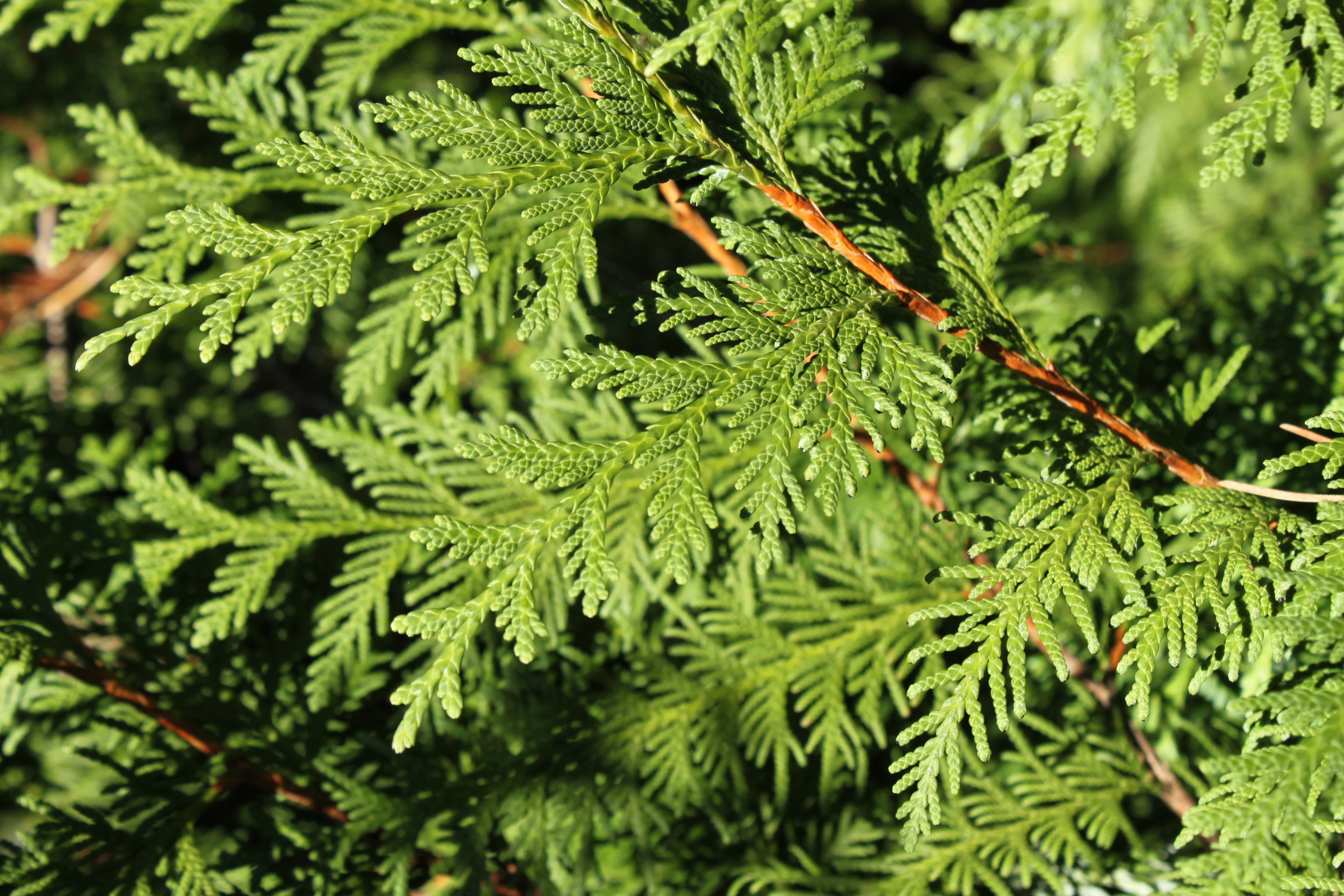 Thuja koraiensis foliage in Arboretum in PAN Botanical Garden in Warsaw, Poland